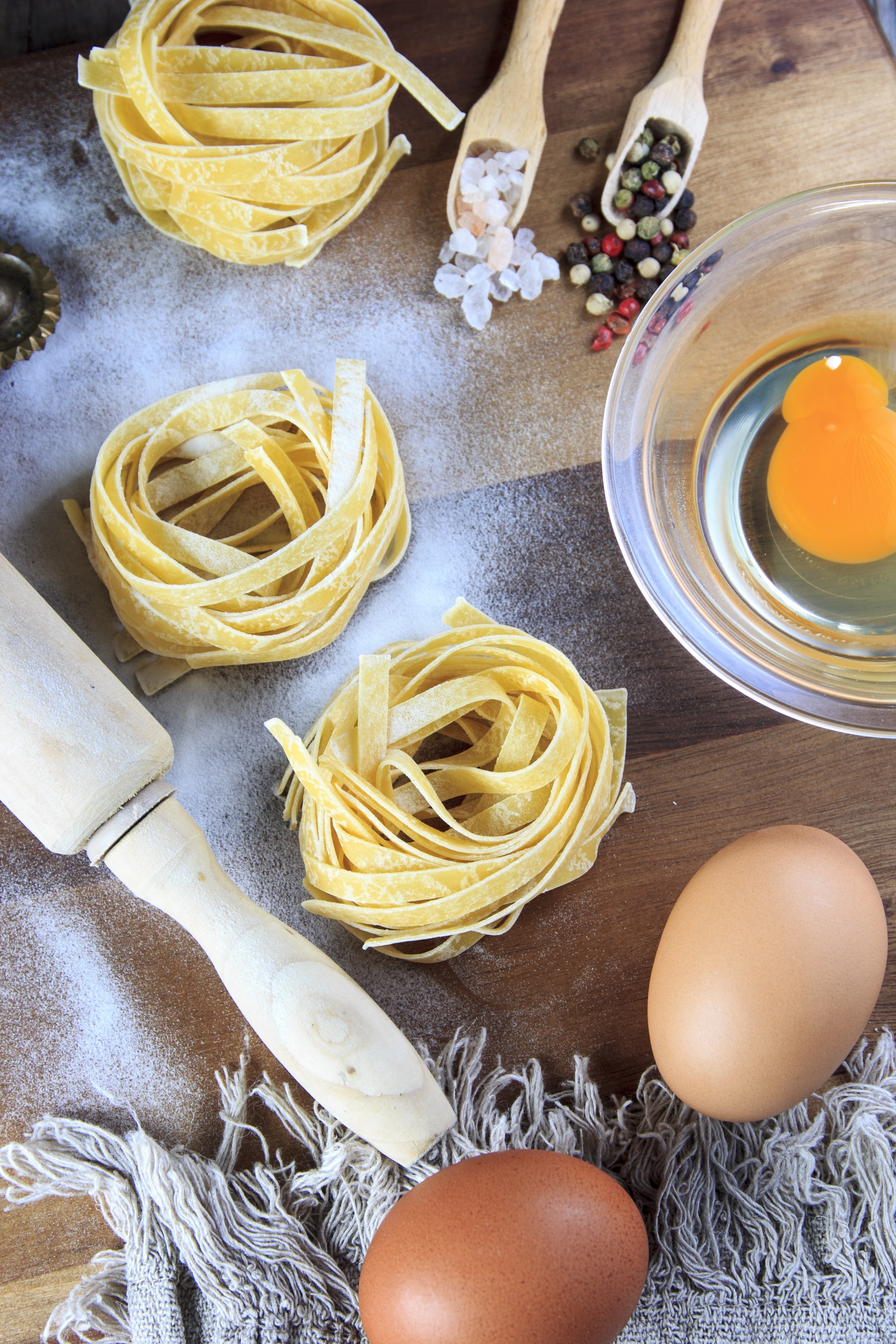 This is a table with fresh pasta, eggs and rolling pin.